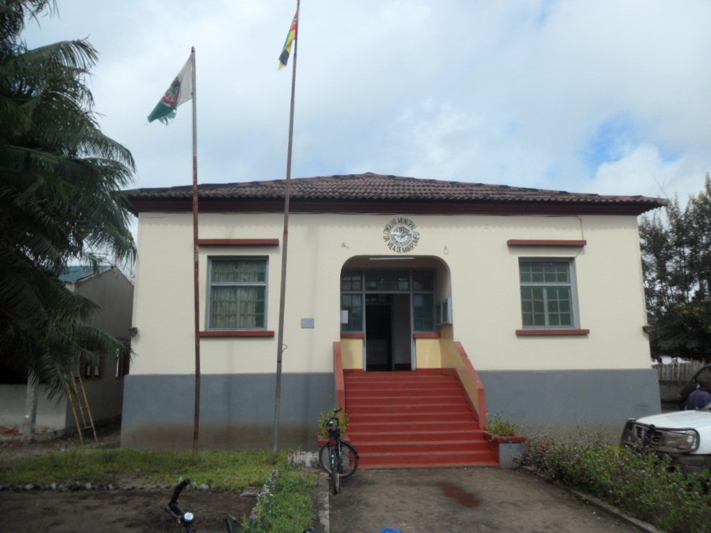 Municipal Council of Marromeu, Mozambique